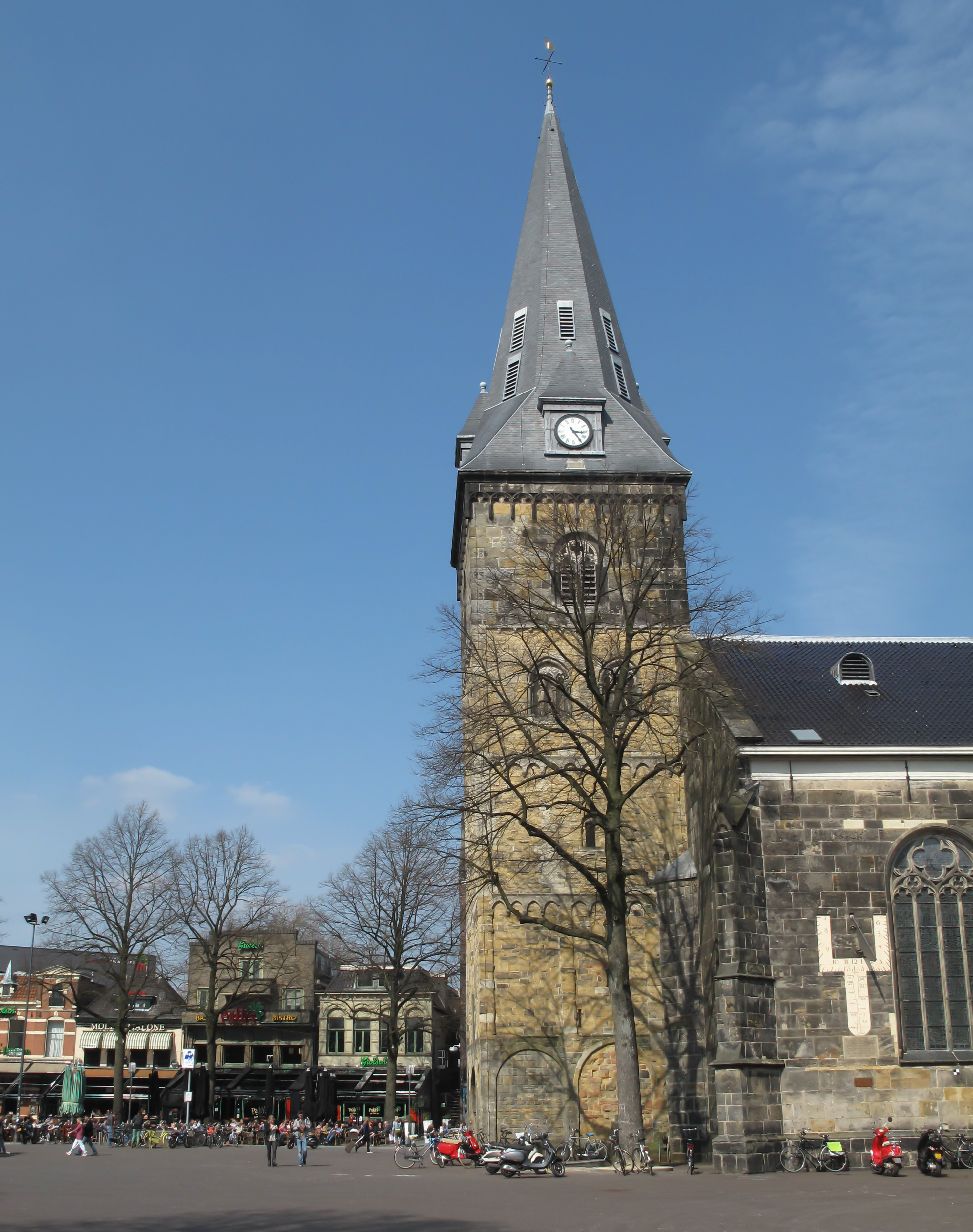 Enschede, church: de Grote Kerk